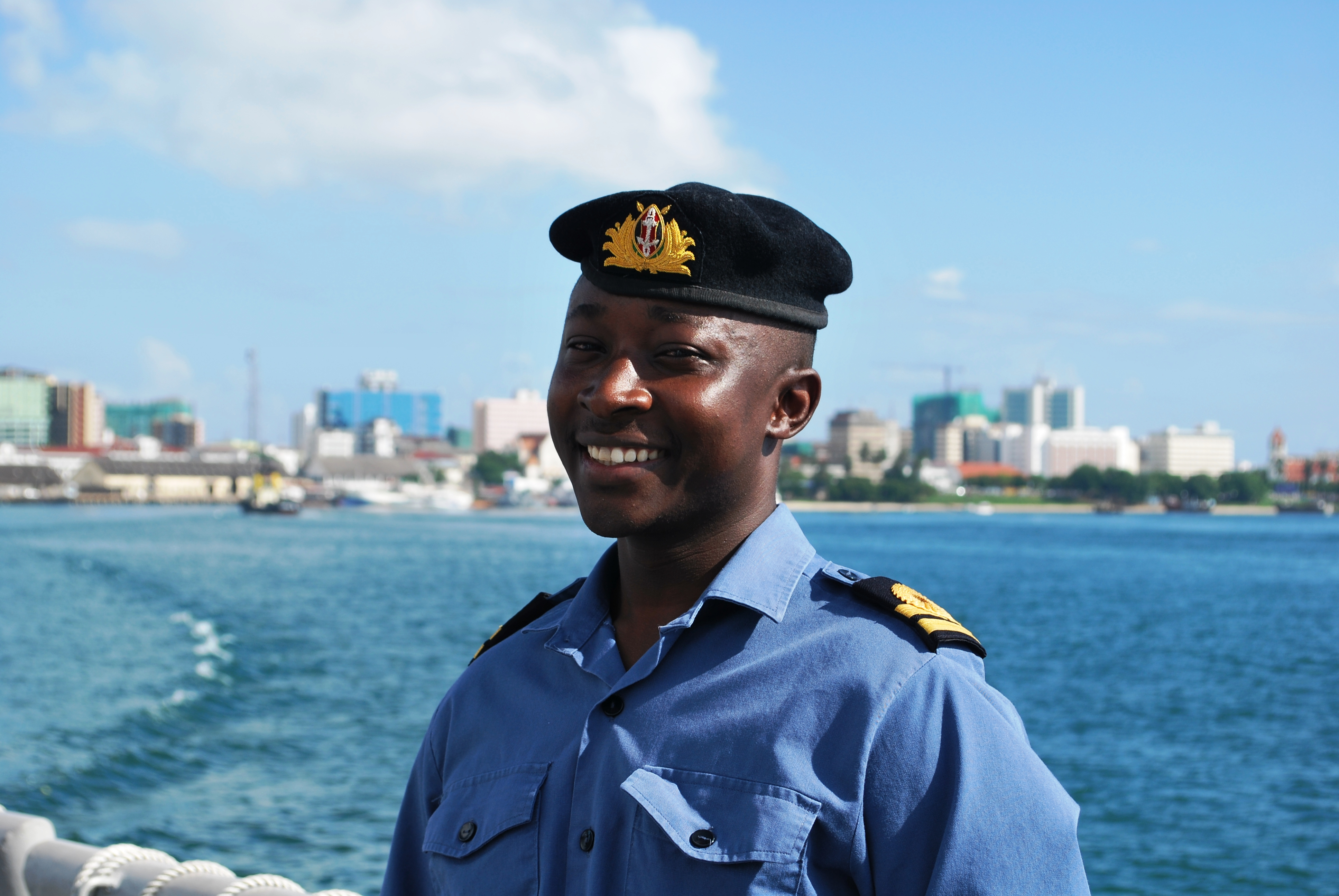 Kenyan navy Capt. Philip Mulumba, the assistant training and plans and assessment officer for Africa Partnership Station (APS) East 2010, is photographed March 8, 2010, in Dar Es Salaam, Tanzania. APS East 2010 marks the first year that the mission includes an international staff of partnering-nations including Kenya, Tanzania, Mozambique, Mauritius, Brazil and the United States. APS East is an international cooperative initiative aimed at strengthening global maritime partnerships through training and other collaborative activities in order to improve maritime safety and security in Africa, and is being conducted in cooperation with Commander, U.S. Naval Forces Africa and U.S. Africa Command.